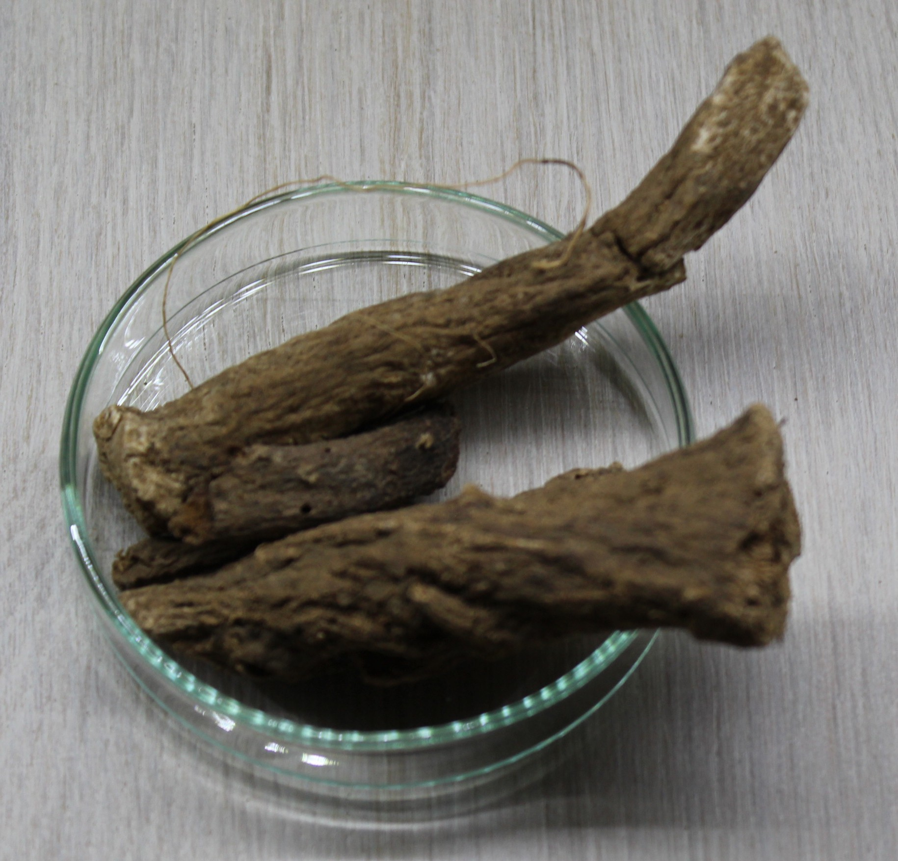 Koshet, Crepe Ginger